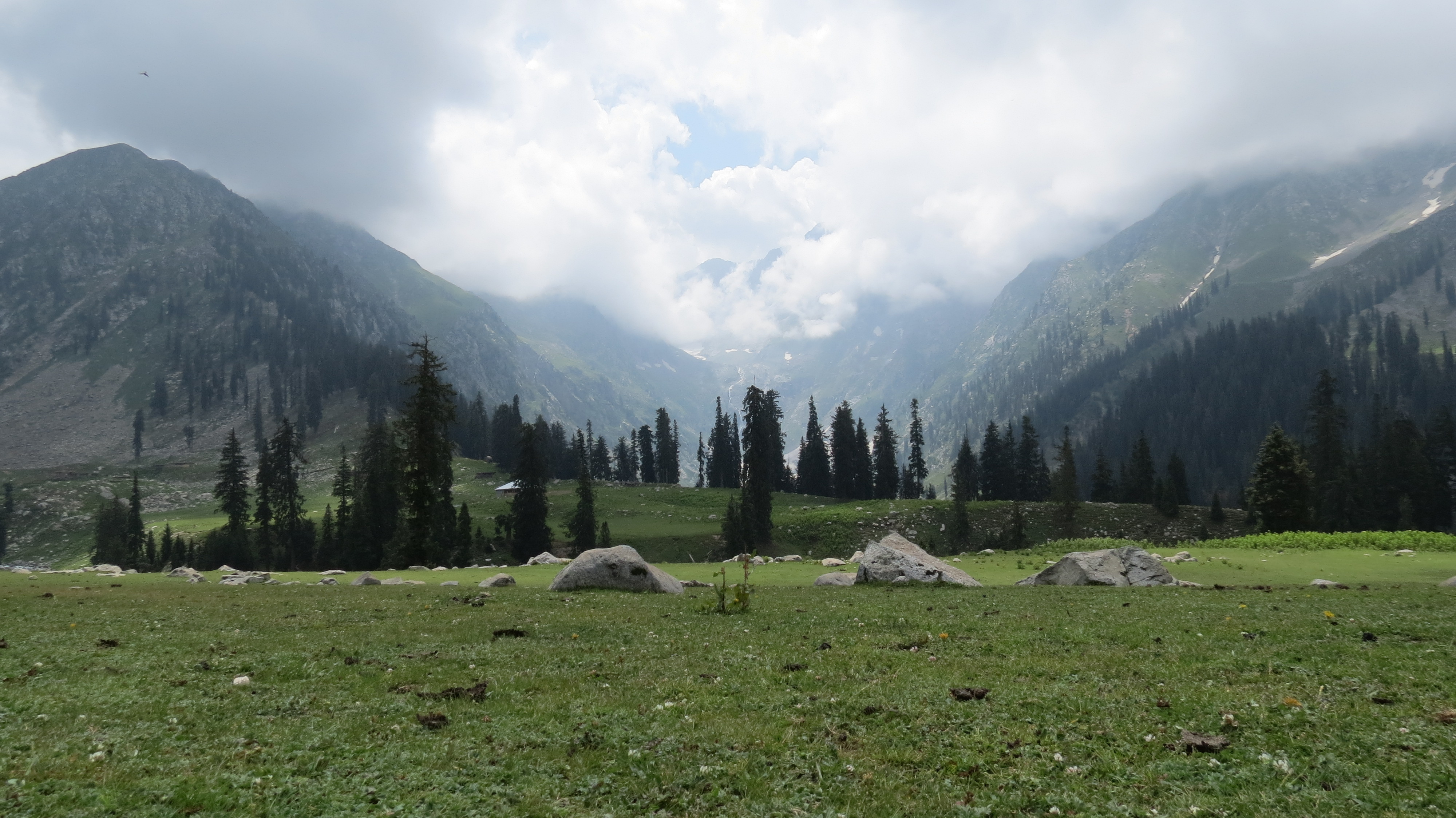 on return